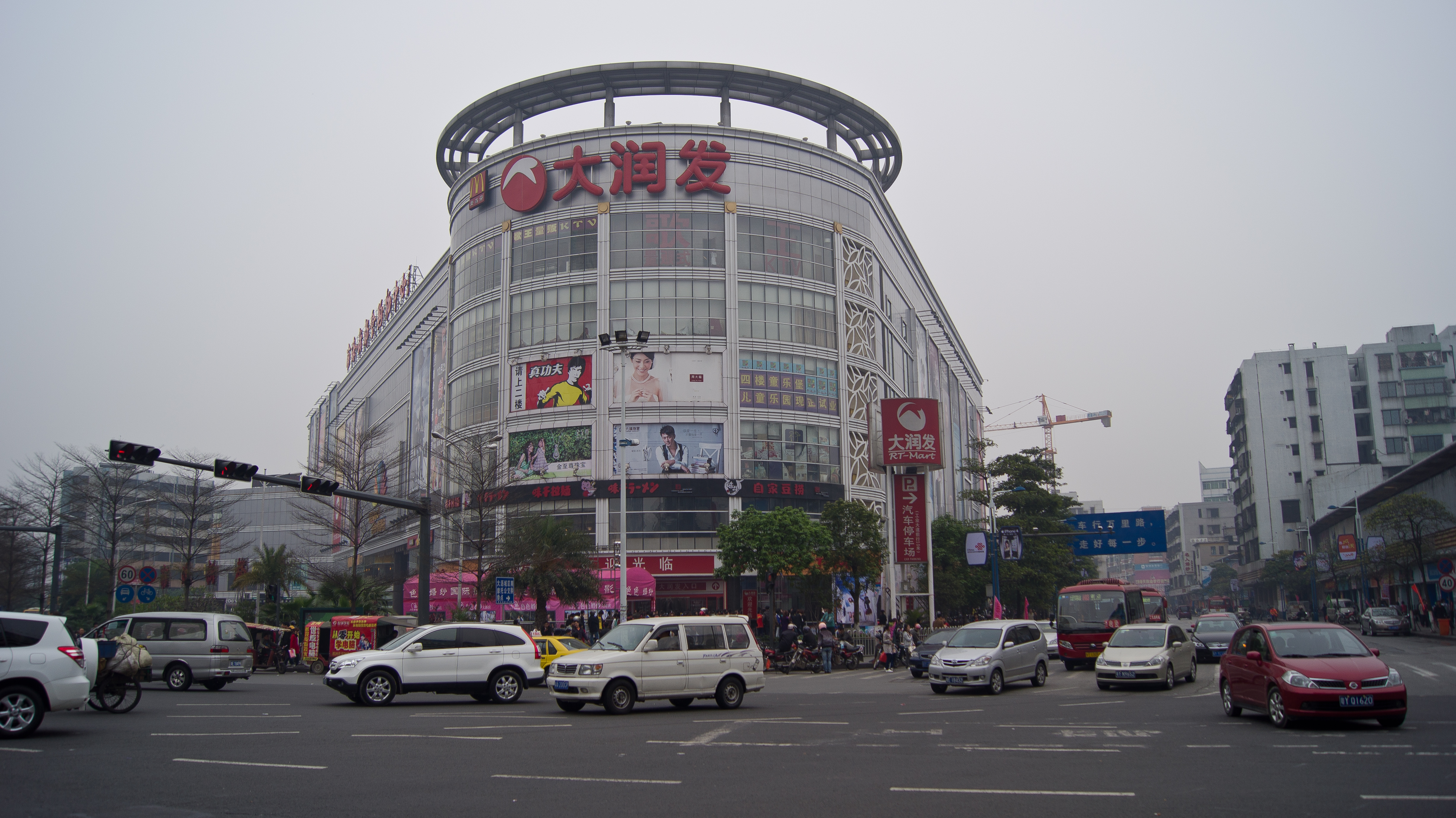 RT-Mart in Nanhai Metromall, Dali Town, Nanhai District, Foshan, Guangdong, China.